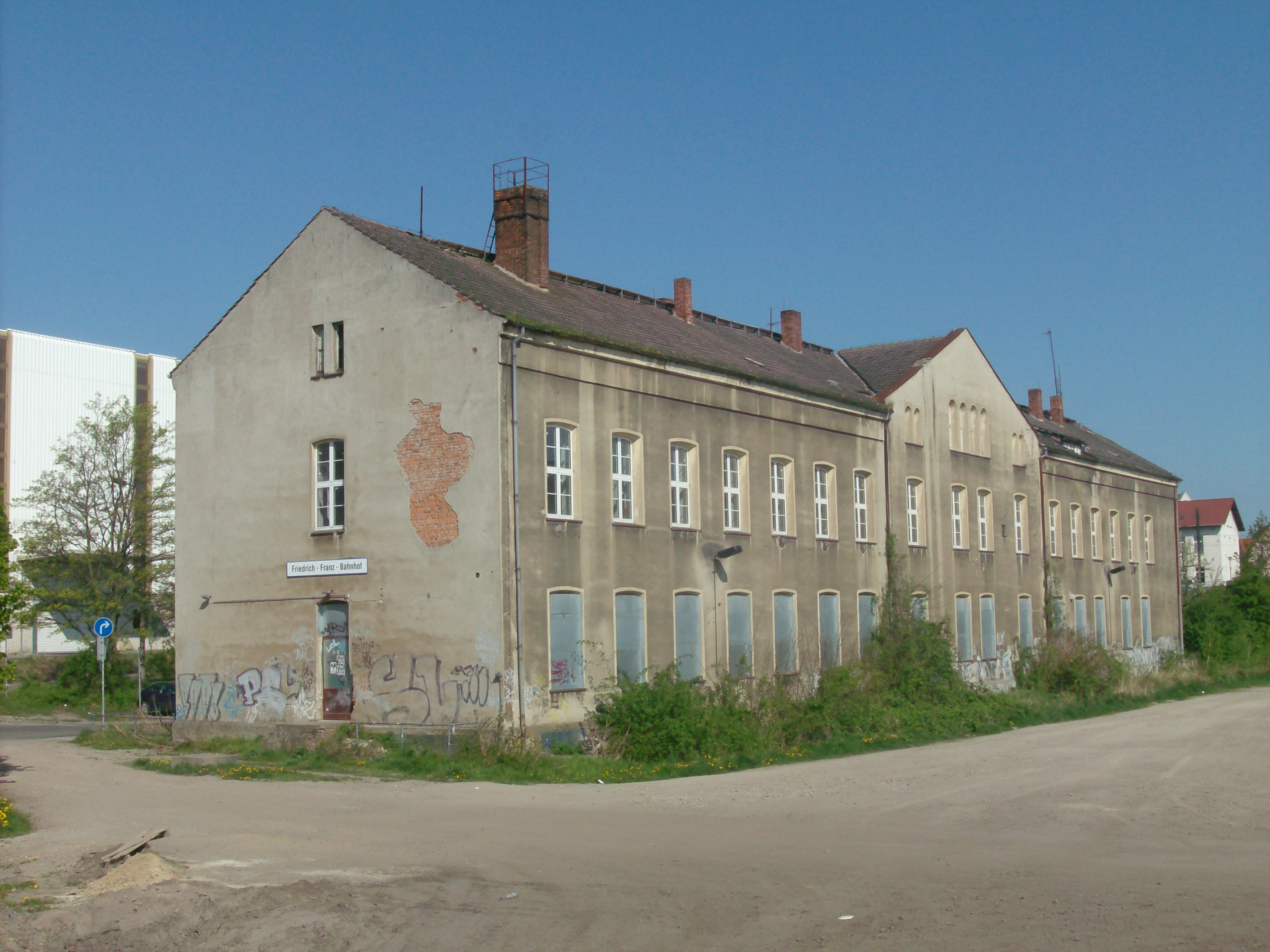 Rostock, former railway station Friedrich-Franz-Bahnhof, station building